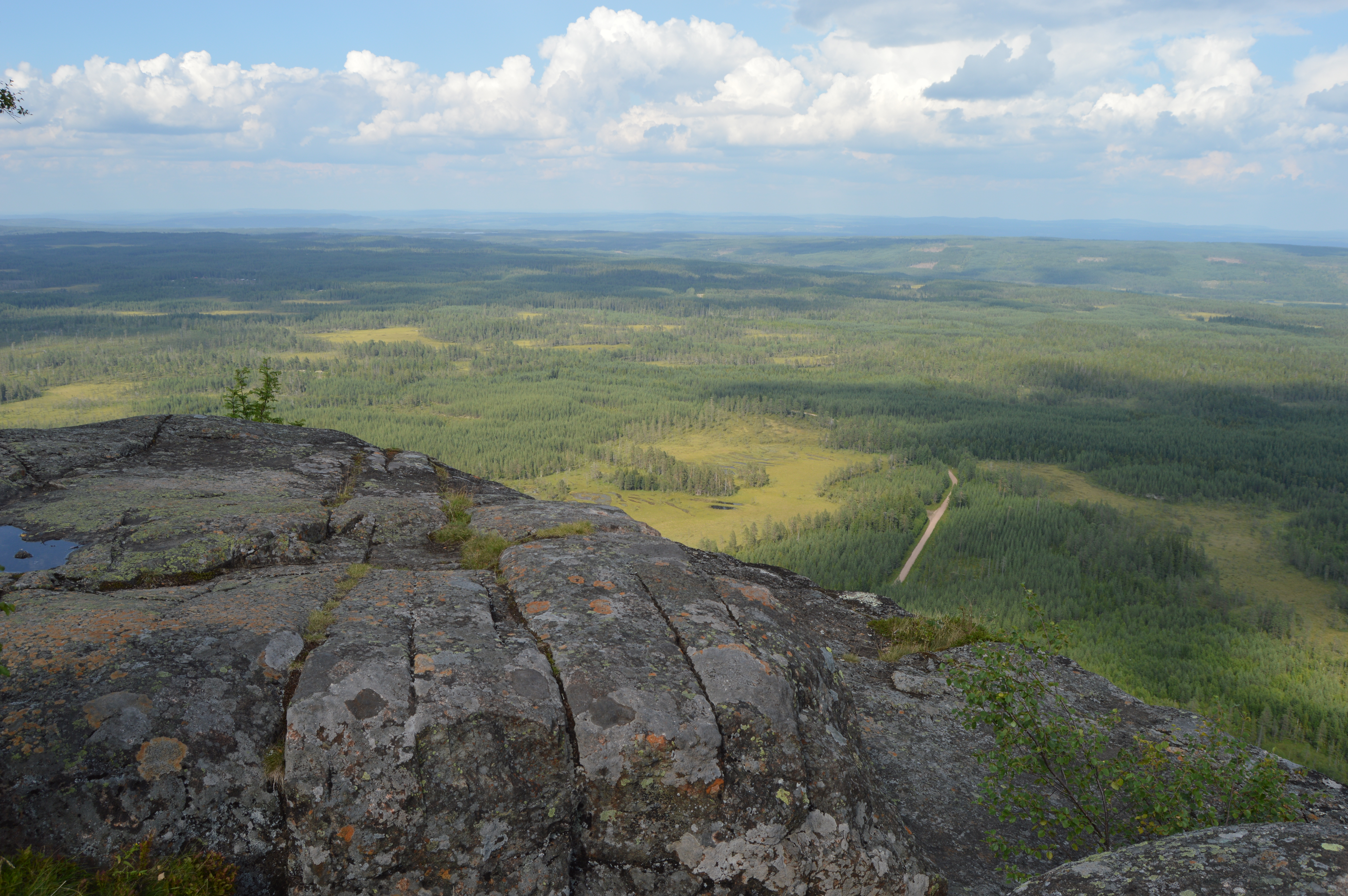 Photo fom the top of Lybergsgnupen, Malung, Sweden.